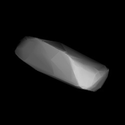 3D convex shape model of 341 California, computed using light curve inversion techniques. J. Hanuš, J. Ďurech, M. Brož, B. D. Warner (June 2011). "A study of asteroid pole-latitude distribution based on an extended set of shape models derived by the lightcurve inversion method". Astronomy and Astrophysics 530: A134. ISSN 0004-6361. arXiv